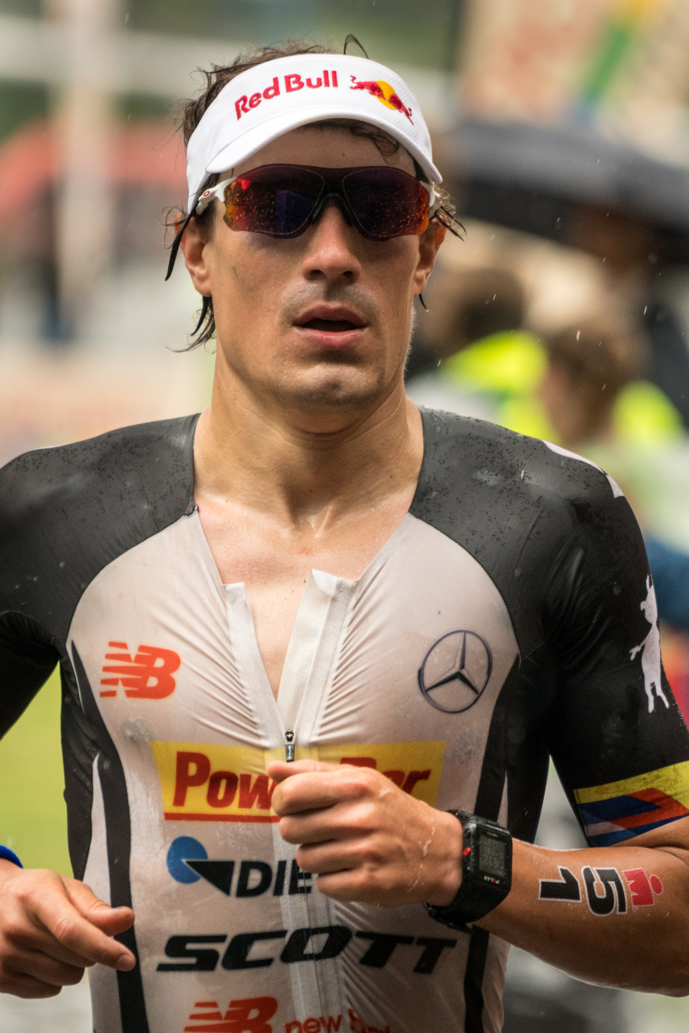 Sebastian Kienle at the 2016 Ironman European Championship in Frankfurt am Main.